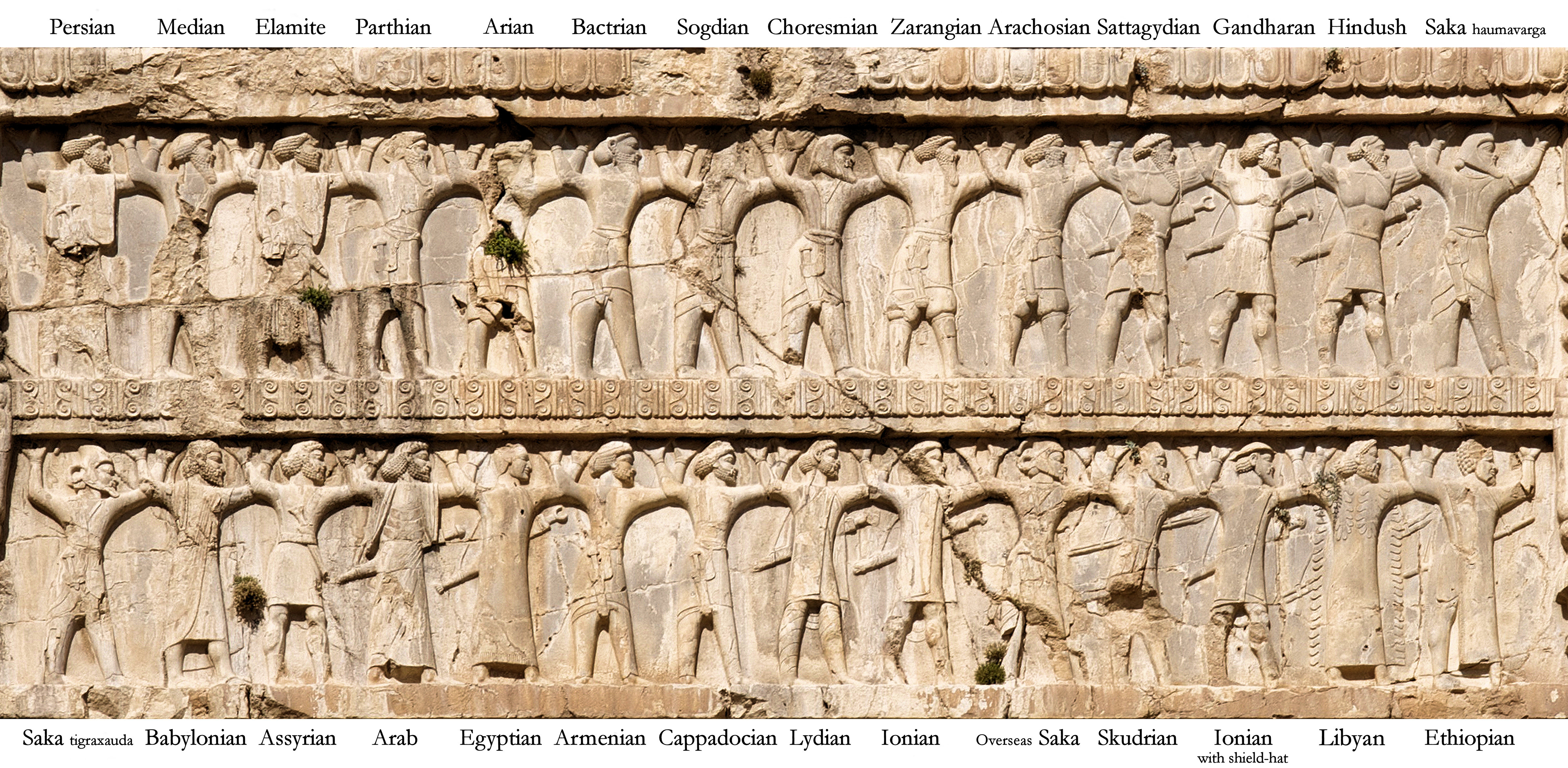 Xerxes all ethnicities Analysis List with corresponding drawings